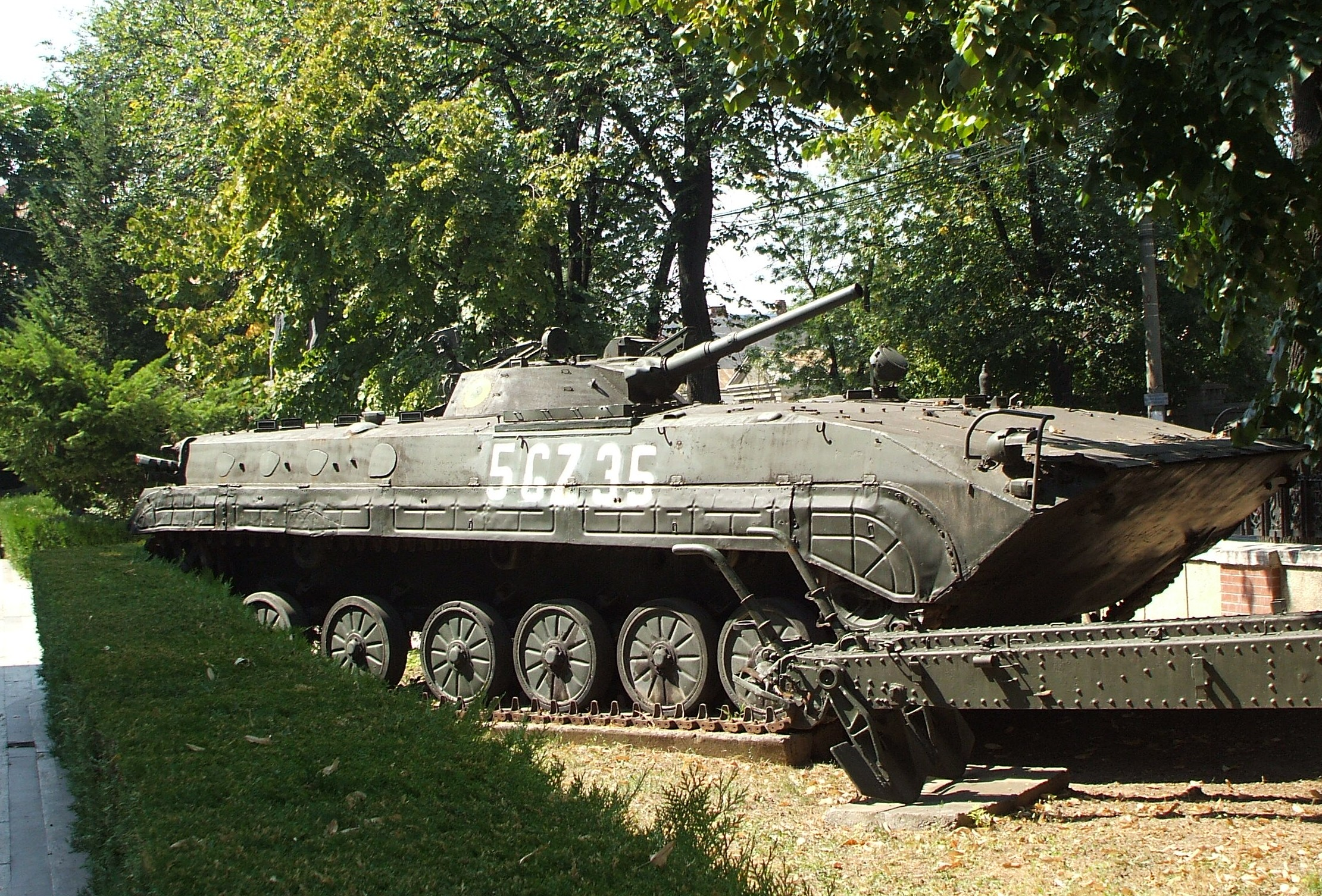 A MLI-84 on display at King Ferdinand National Military Museum.